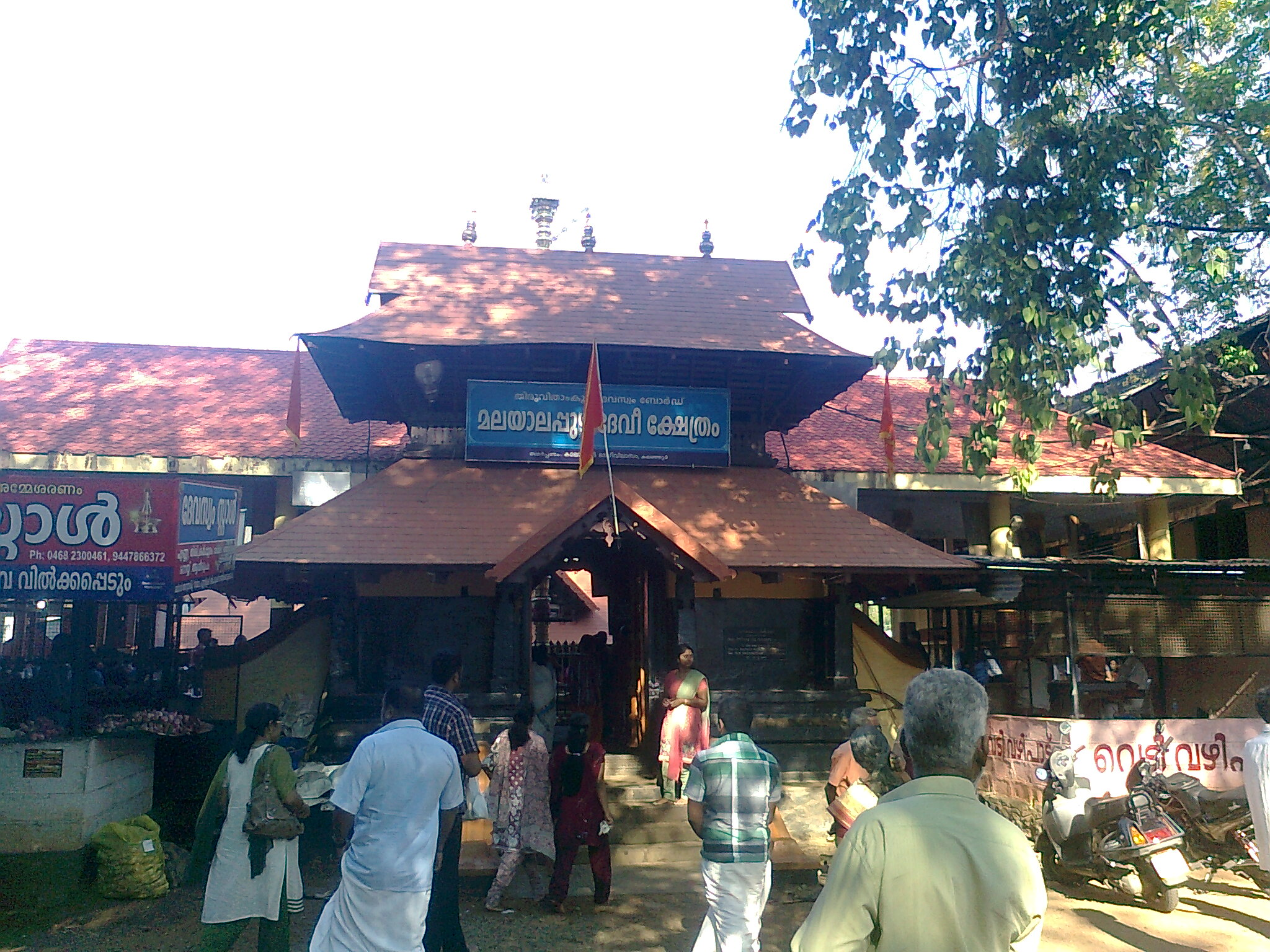 The front entrance to the Malayalapuzha Devi Temple, Pathanamthitta, Kerala.